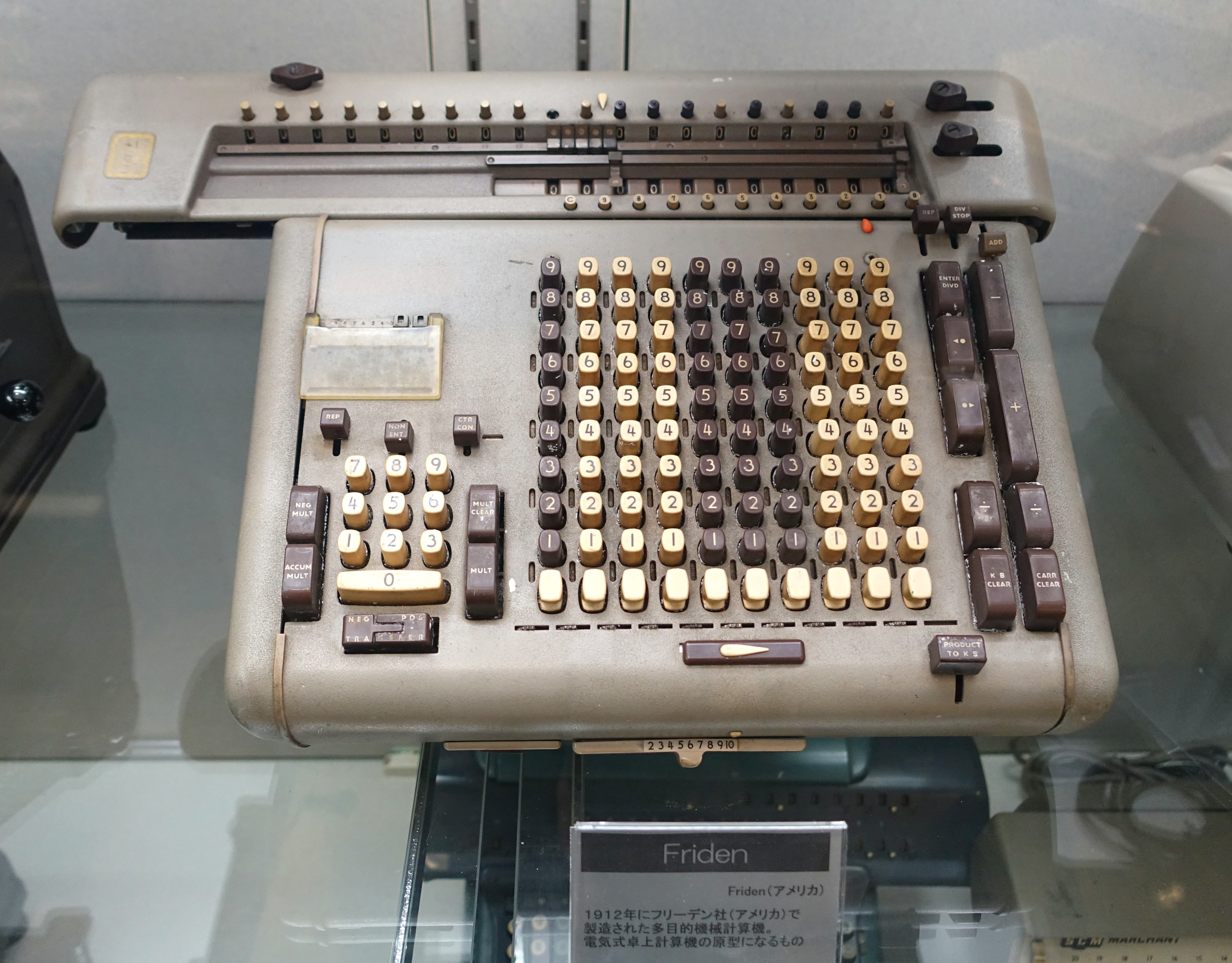 Exhibit in the Ridai Museum of Modern Science, Tokyo University of Science, Kagurazaka campus - 1-3 Kagurazaka, Shinjuku-ku, Tokyo.